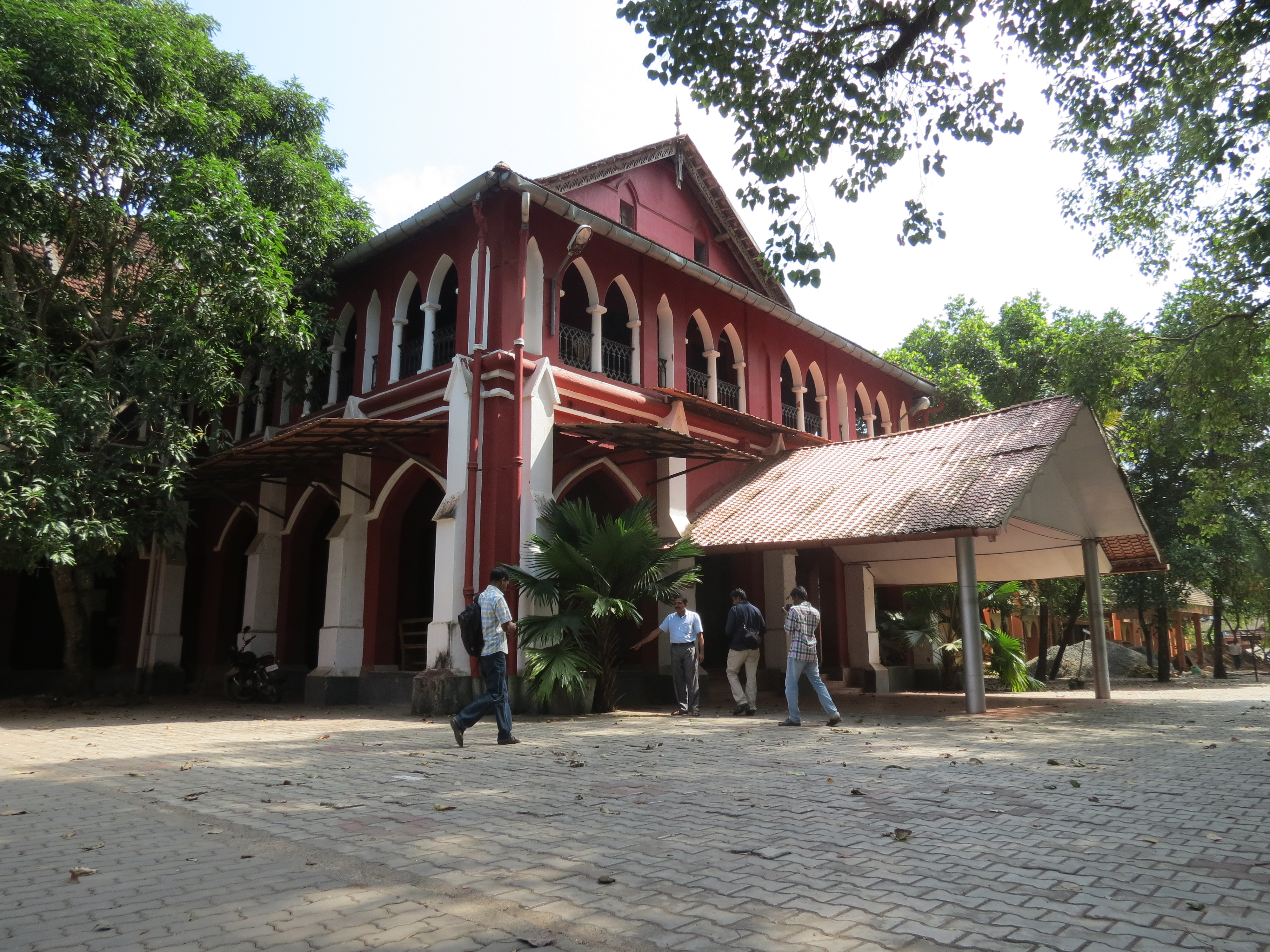 Alappuzha District Court building